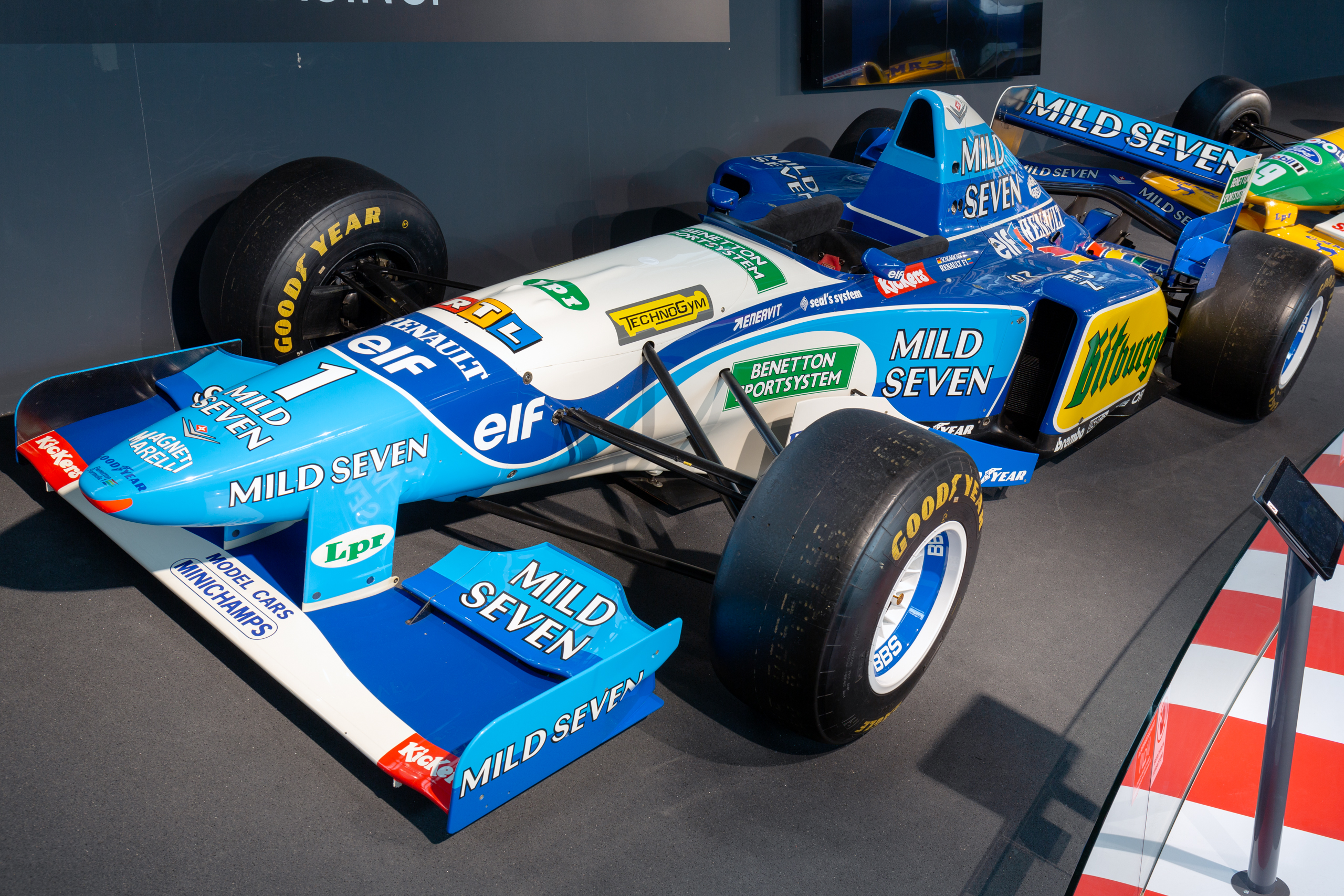 Michael Schumacher Private Collection: Benetton B195-04 of Michael Schumacher